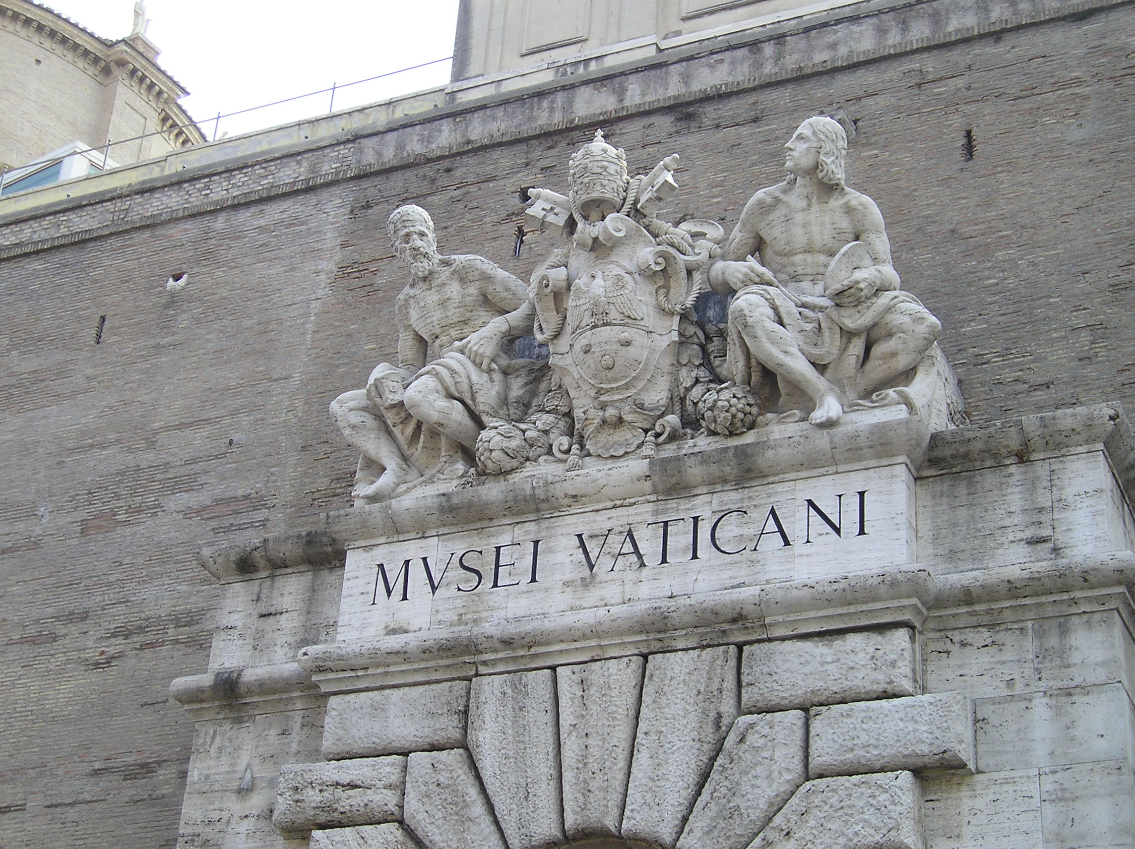 Vatican - musei